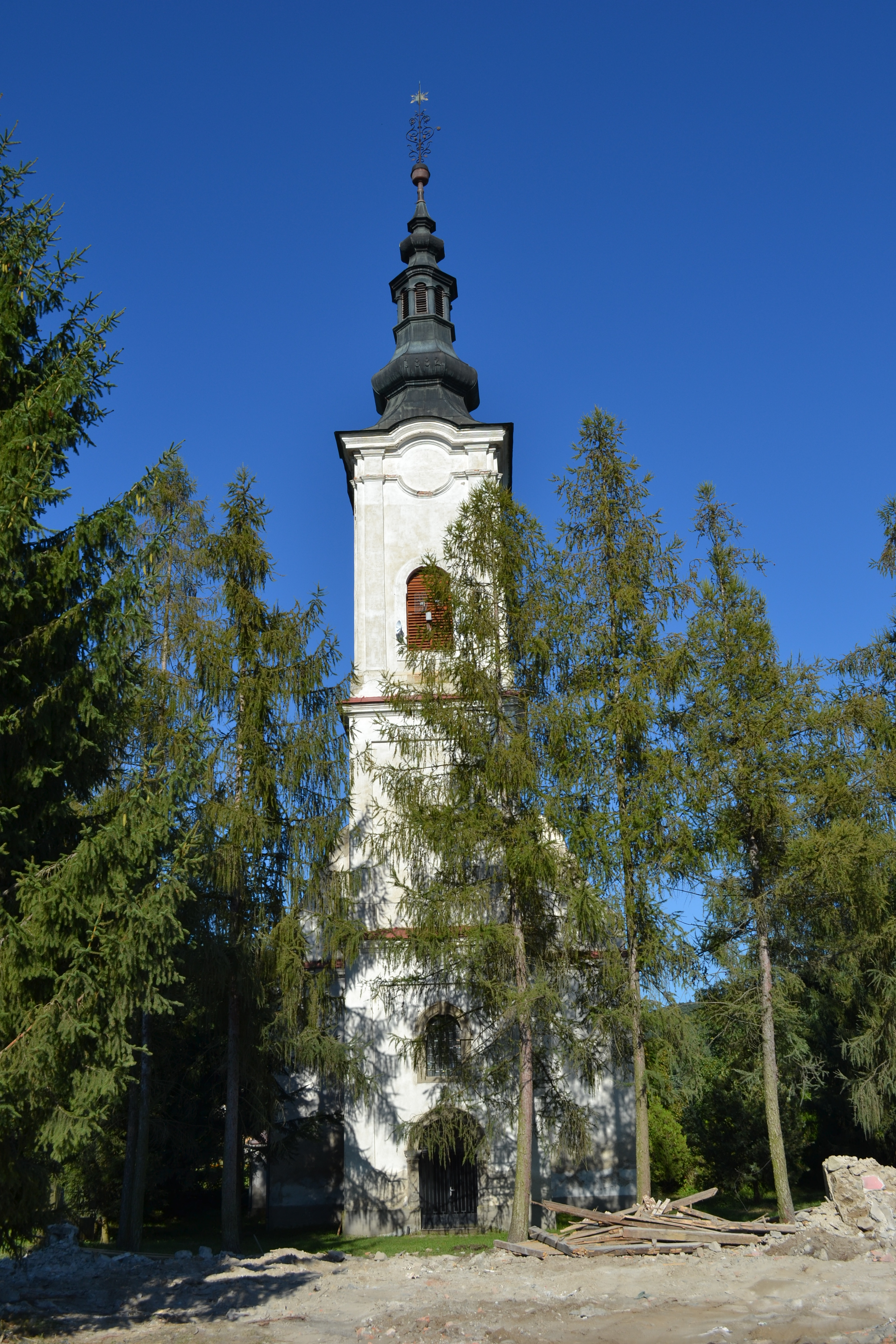 Evangelic church in Nižný Skálnik